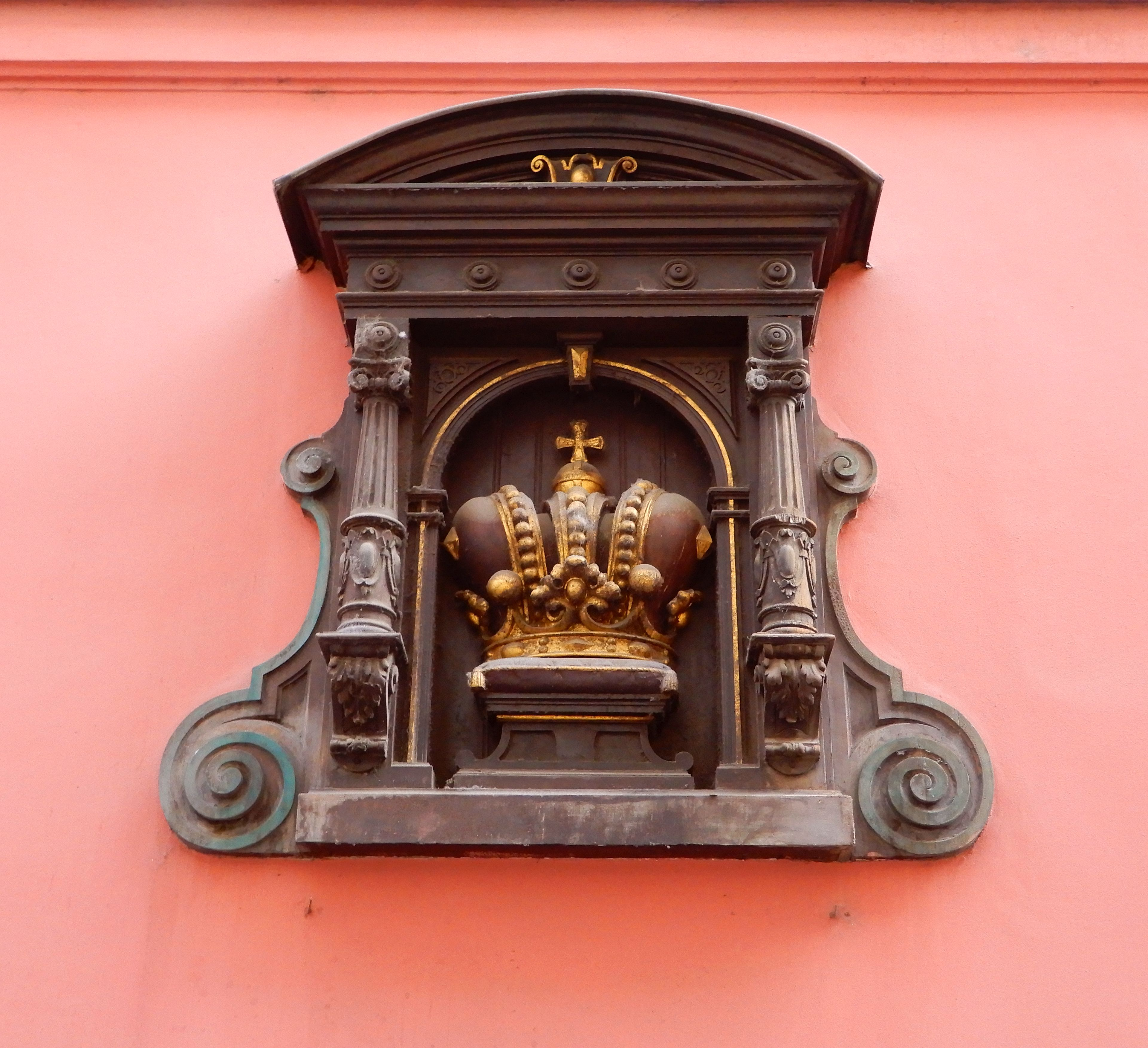 House sign "At the golden Crown", Karlova street No 455-I, Prague - Old Town